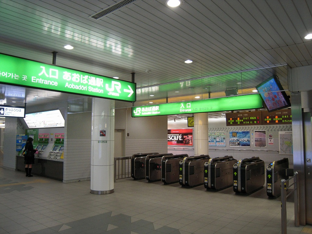 Aobadori station (JR East Senseki line,Aoba-ku,Sendai city) centergate